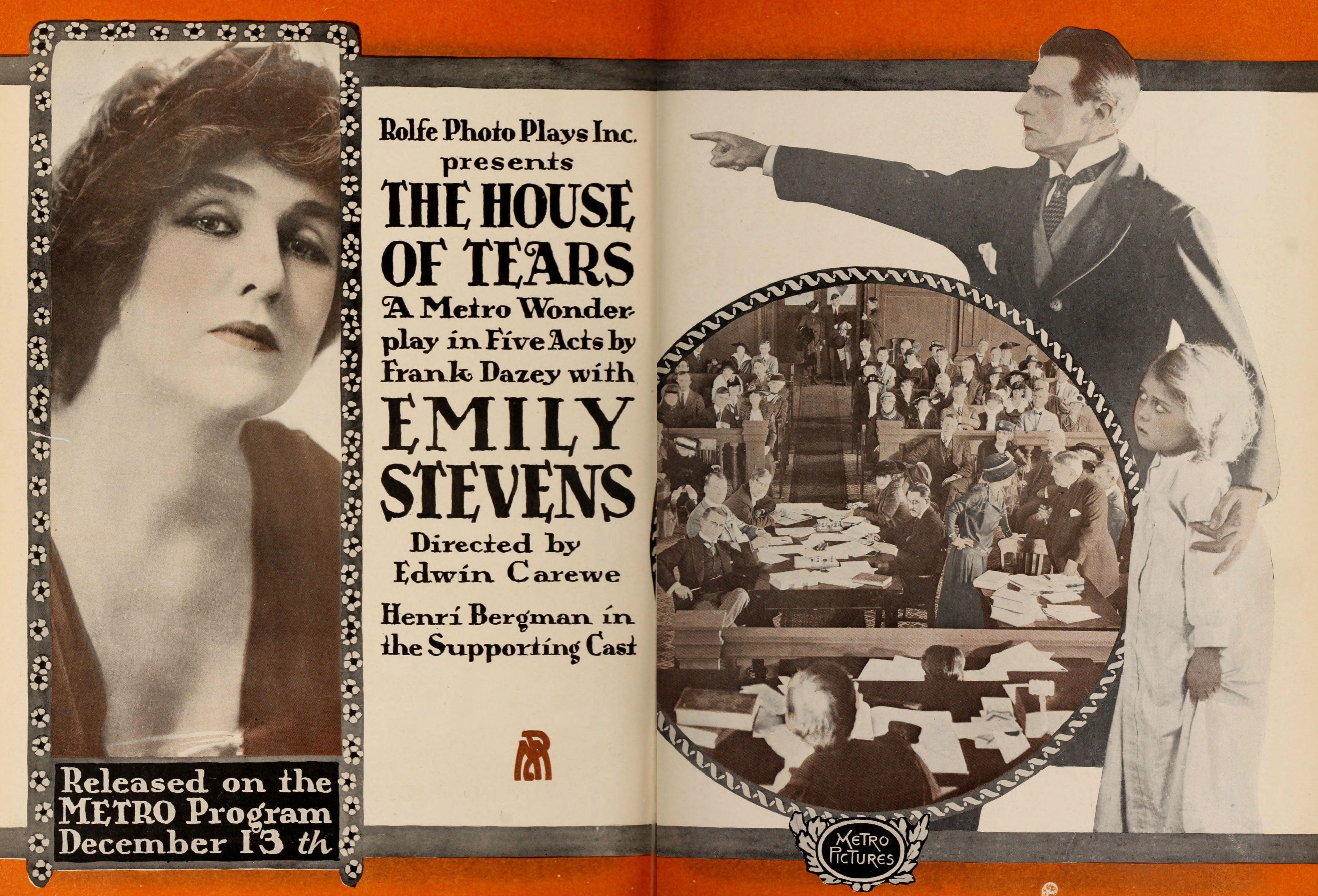 Two page ad for the 1915 film The House of Tears in the December 11, 1915 issue of Motion Picture News.